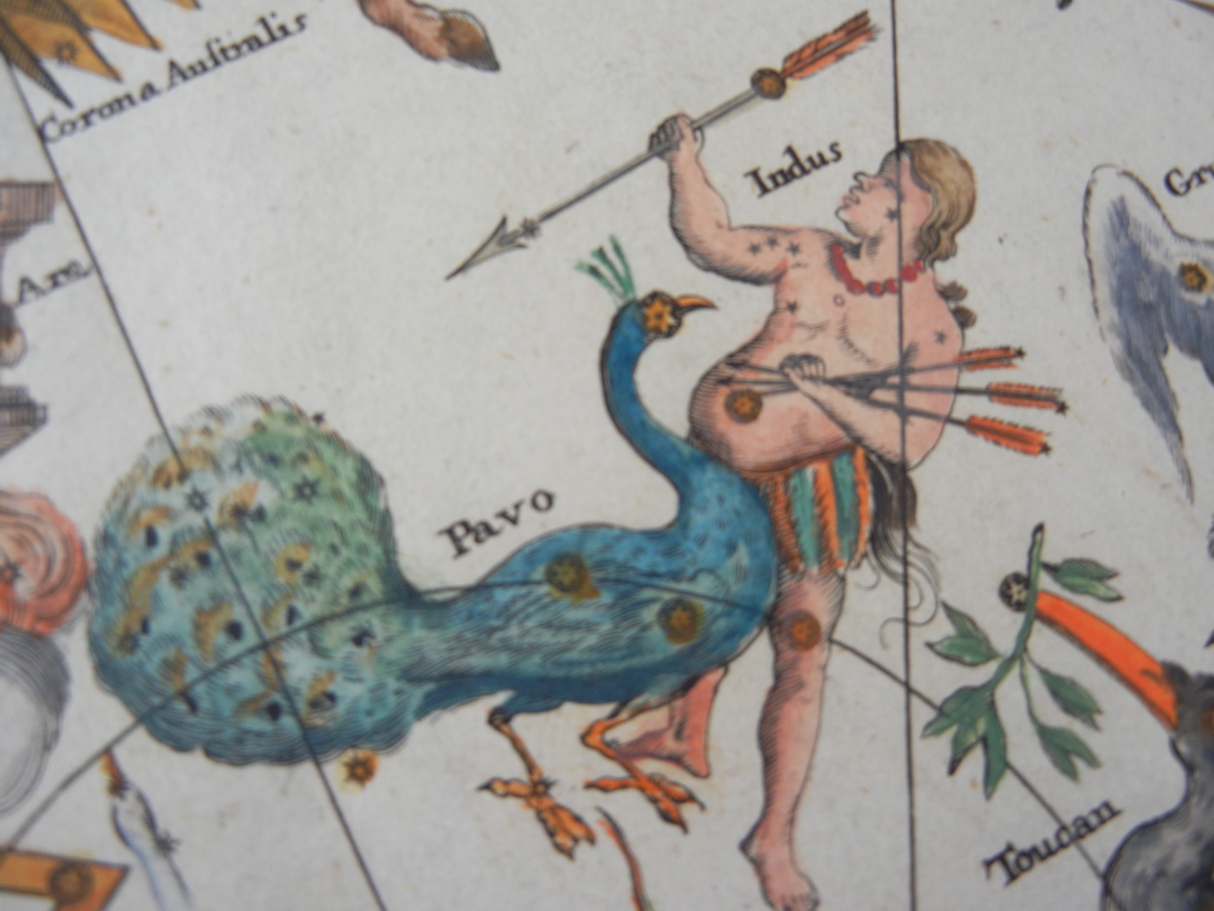 Constellations Pavo and Indus, of a chart of southern celestial hemisphere (Atlas Coelestis in quo Mundus Spectabilis...) from 1730